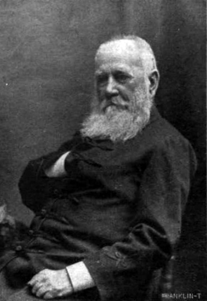 József Madarász (1814-1915), hungarien politic